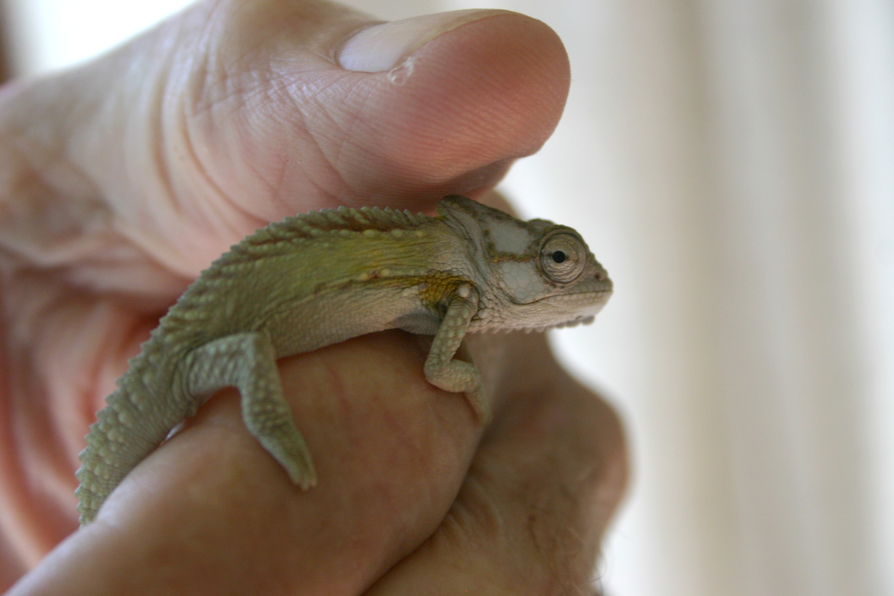 Bradypodion damaranum at Nature's Valley, Southern Cape, South Africa